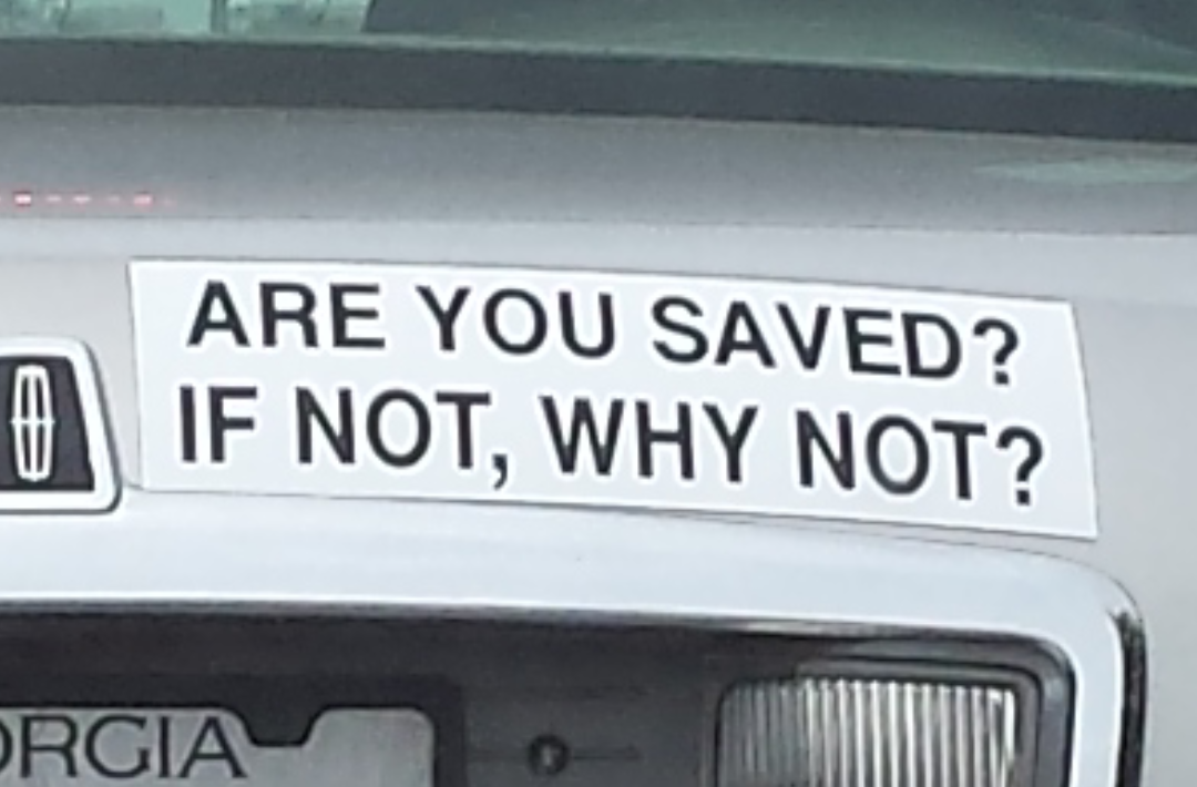 Bumper sticker on a Lincoln car asking "Are you saved? If not, why not?"